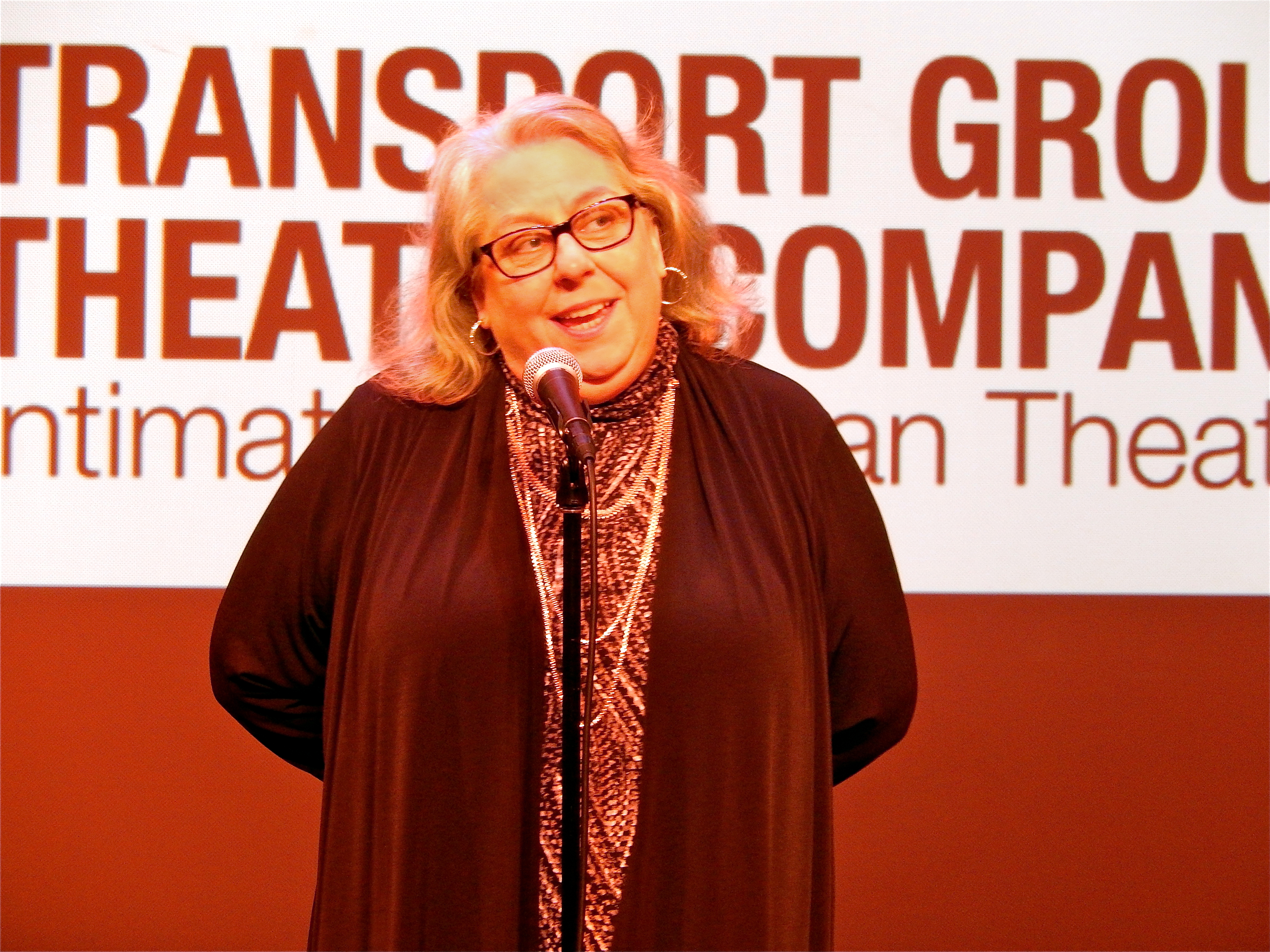 American actress Jayne Houdyshell at 'Gimme A Break!' Transport Group Gala 2013. The Asia Society. NYC. 12.9.13.